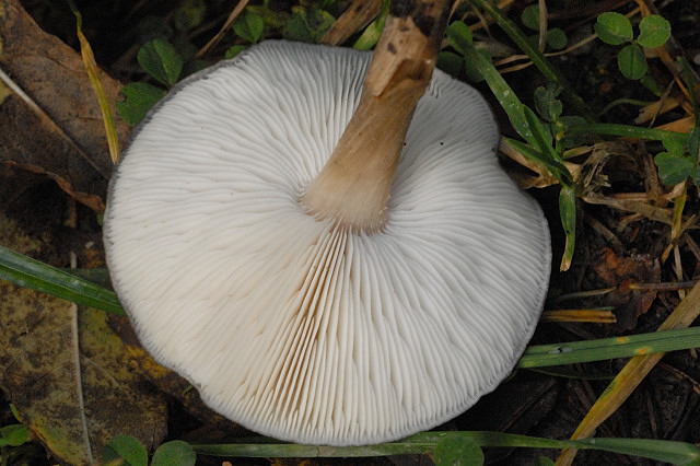 Melanoleuca spec. (maybe Melanoleuca melaleuca) from Commanster, Belgium. The determination of the species shown in this picture has been verified.